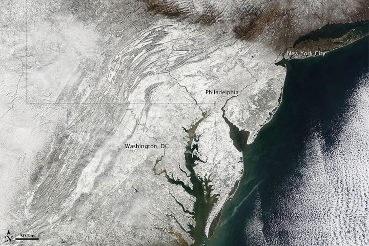 Nicknamed “snowpocalypse” and “snowmageddon,” an exceptionally severe winter storm dropped several feet of snow around the Washington, D.C., area in early February 2010. Crashed and abandoned cars littered roads as airlines canceled hundreds of flights. Even the DC Metro train system stopped functioning in places. The Moderate Resolution Imaging Spectroradiometer (MODIS) on NASA’s Terra satellite captured this true-color image on February 7, 2010, showing part of the region affected by heavy snowfall. Snow blankets the area hundreds of kilometers inland from the Atlantic coastline. Along the latitude of New York City, however, snow cover thins considerably.